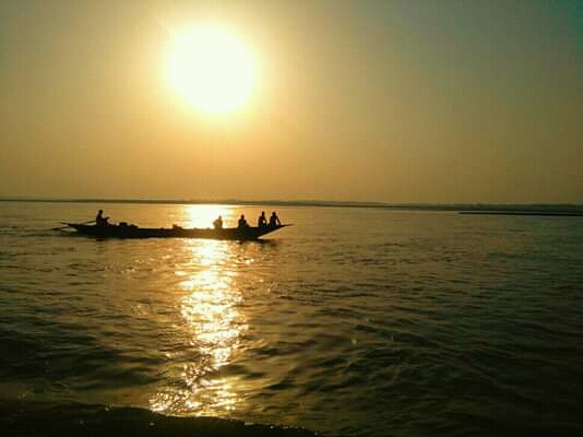 Jamuna river is located in sirajganj,Bangladesh. It is one of the big river of Bangladesh. There are many beautiful seen in this rever.